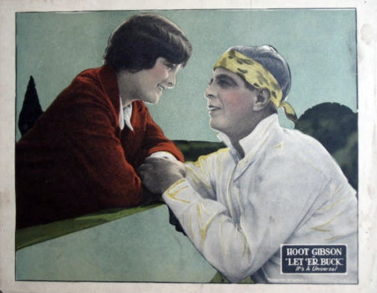 Lobby card for the American western film Let 'Er Buck (1925) with Hoot Gibson and Marian Nixon.